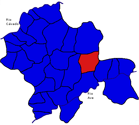 Map of Oliveira in Povoa de Lanhoso, Portugal